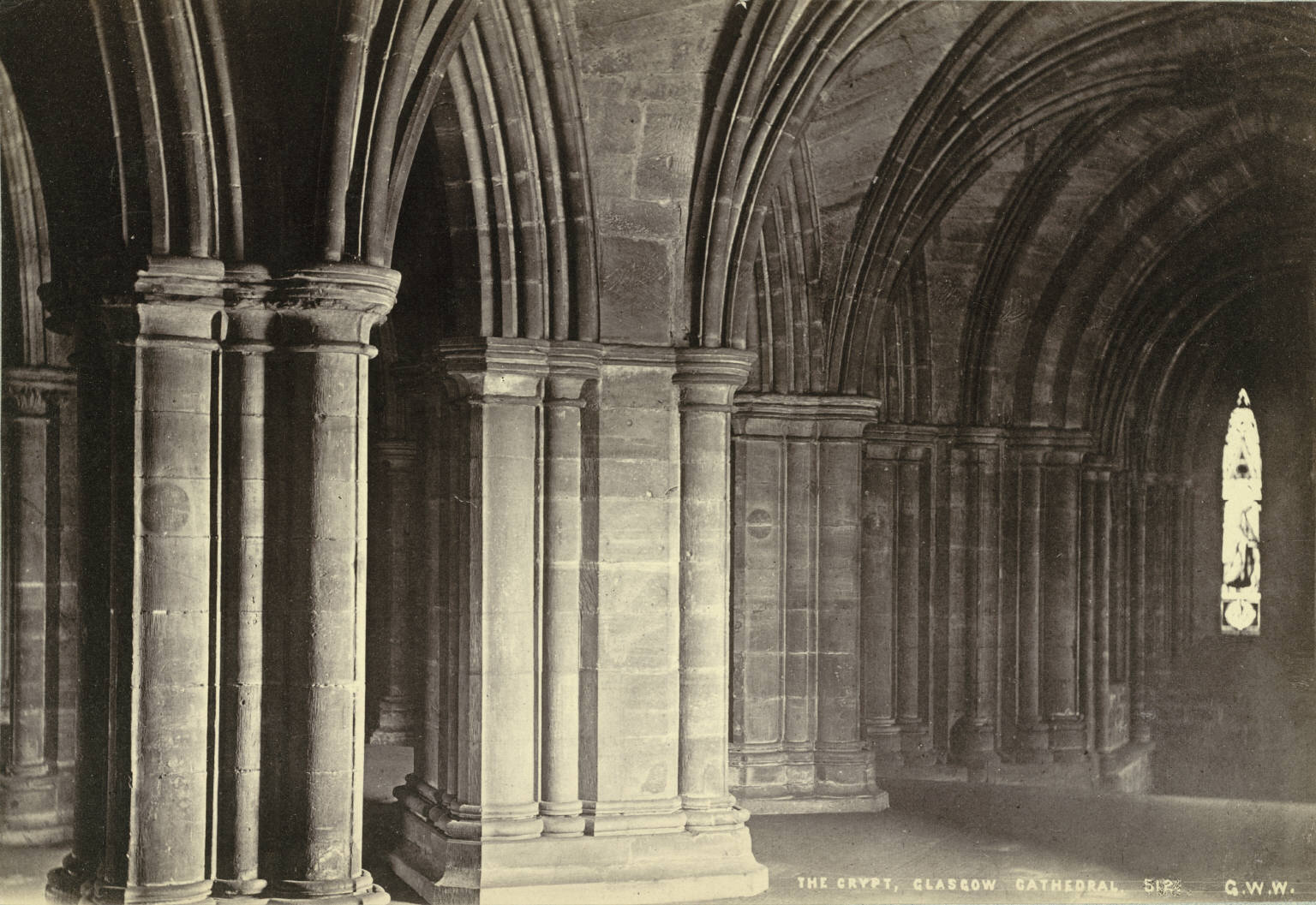 Collection: A. D. White Architectural Photographs, Cornell University Library Accession Number: 15/5/3090.01217 Title: Glasgow Cathedral. Crypt (Interior) Photographer: George Washington Wilson (Scottish, 1823-1893) Building Date: 1197-ca. 1399 Photograph date: ca. 1865-ca. 1885 Location: Europe: United Kingdom; Glasgow Materials: albumen print Image: 6 1/2 x 9 1/2 in.; 16.51 x 24.13 cm Provenance: Transfer from the College of Architecture, Art and Planning Persistent URI: There are no known copyright restrictions on this image. The digital file is owned by the Cornell University Library which is making it freely available with the request that, when possible, the Library be credited as its source. We had some help with the geocoding from Web Services by Yahoo! This image is from the Cornell University Library's The Commons Flickr stream. The Library has determined that there are no known copyright restrictions. This image was taken from Flickr's The Commons. The uploading organization may have various reasons for determining that no known copyright restrictions exist, such as: The copyright is in the public domain because it has expired; The copyright was injected into the public domain for other reasons, such as failure to adhere to required formalities or conditions; The institution owns the copyright but is not interested in exercising control; or The institution has legal rights sufficient to authorize others to use the work without restrictions. More information can be found at Please add additional copyright tags to this image if more specific information about copyright status can be determined. See Commons:Licensing for more information.No known copyright restrictionsNo restrictions